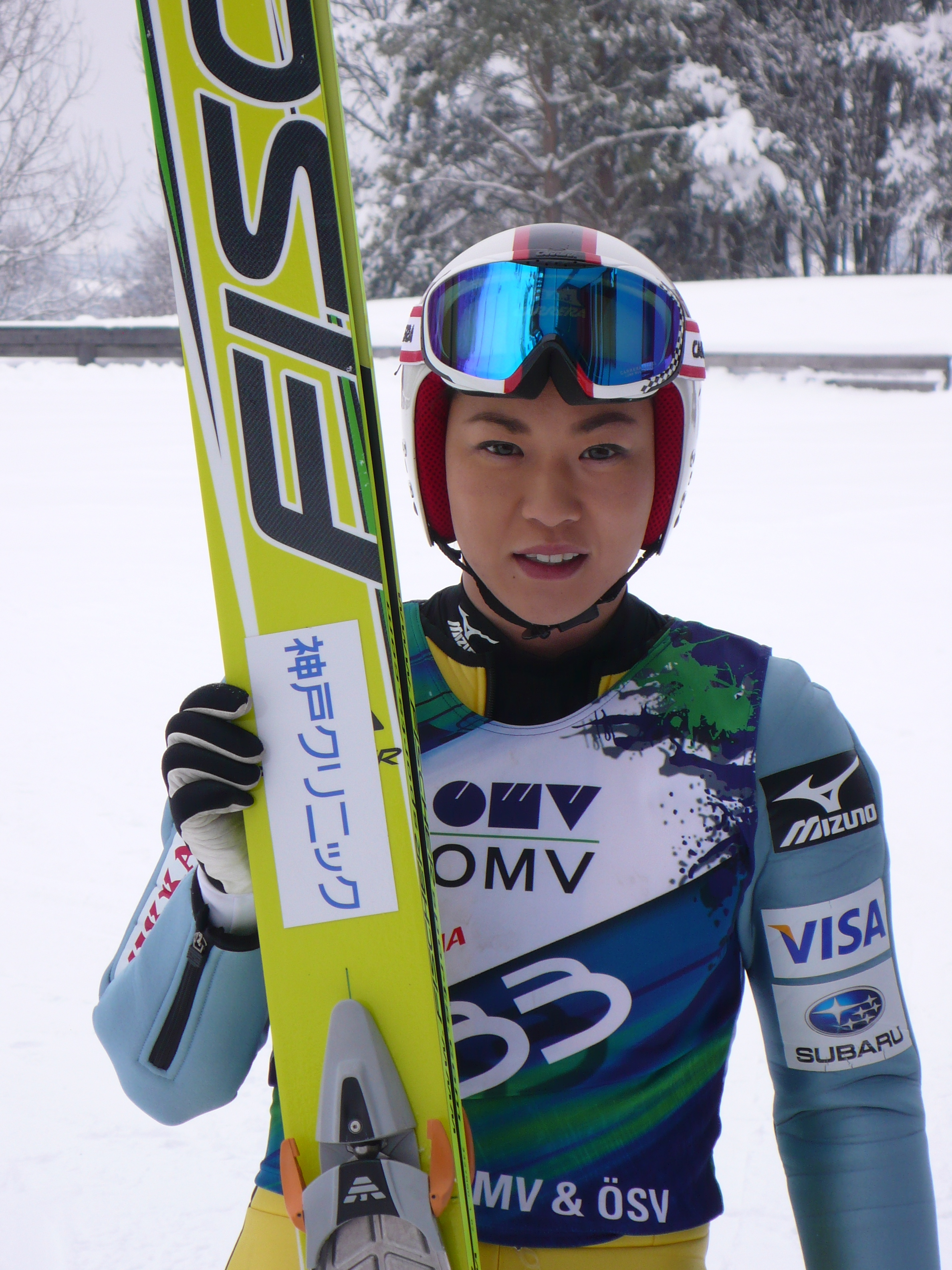 Ayumi Watase, at the Ski jumping Continental Cup in Villach on the 2010-02-12.